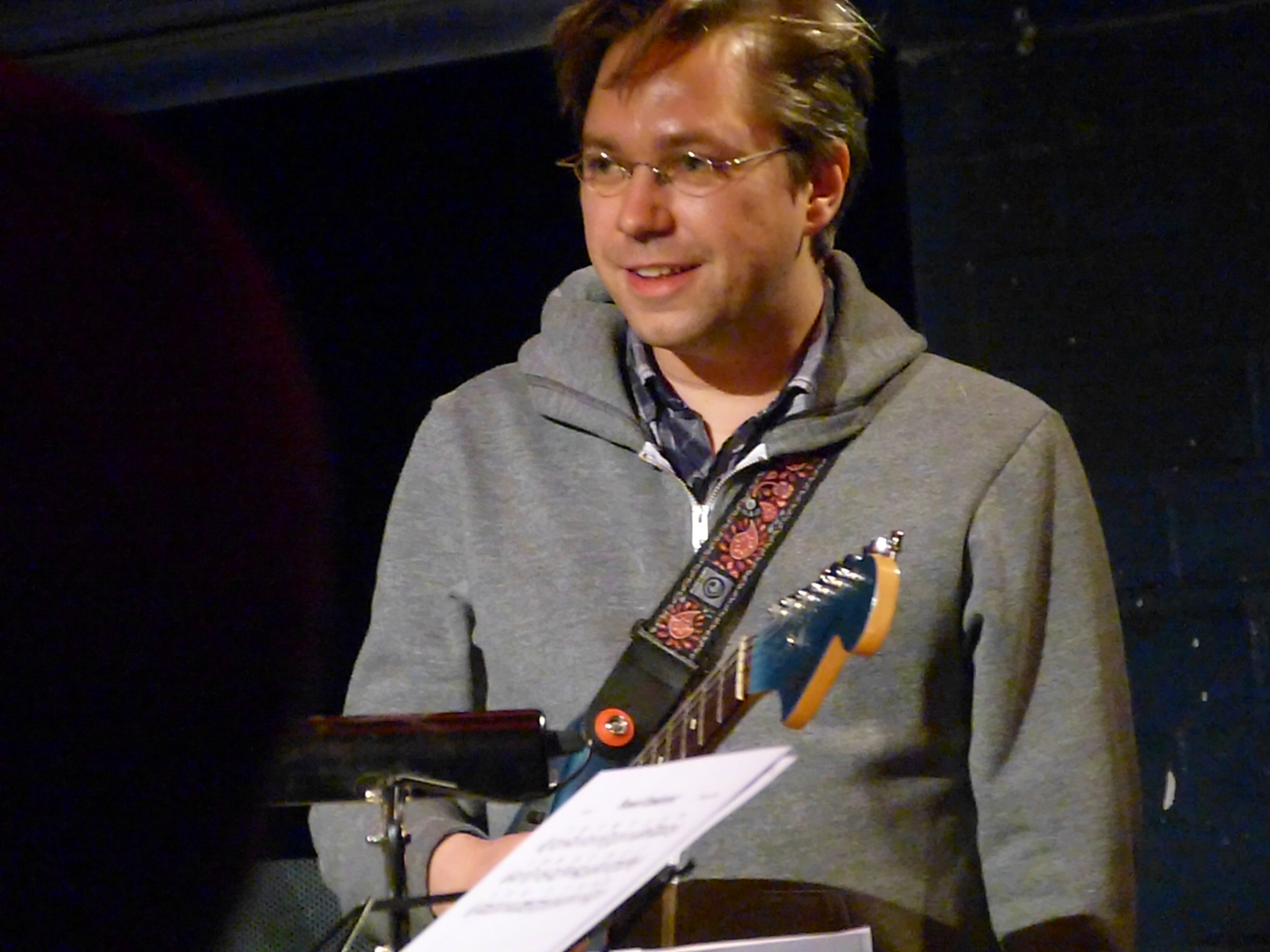 Tobias Hoffmann (g) in concert with Nils Tegen (dr), Simon Seidl (p), Fabian Dudek (s), and David Helm (b) at ARTheater, Cologne, Germany, October 13th, 2015